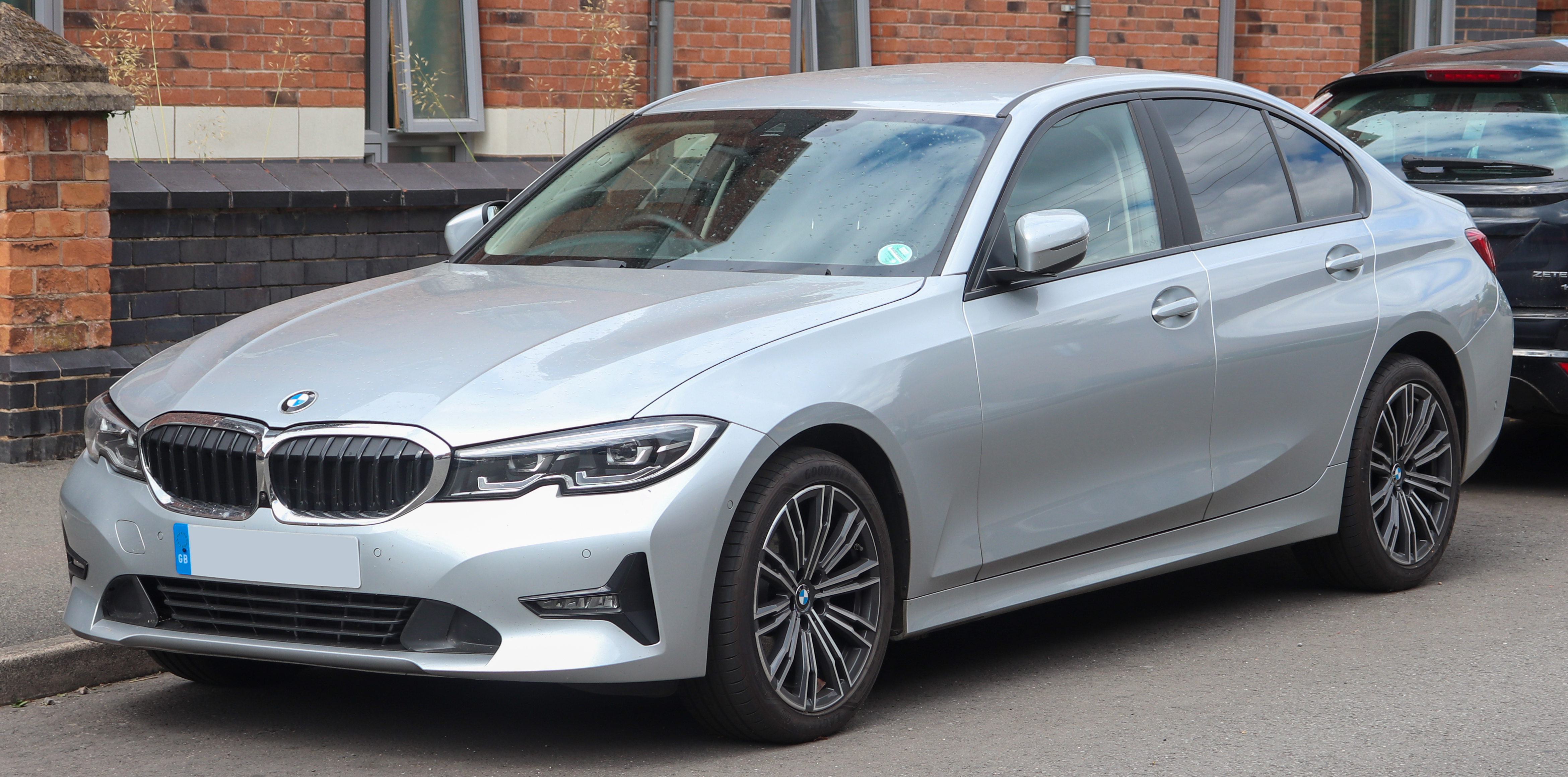 2019 BMW 318d SE Automatic 2.0 Front Taken in Warwick